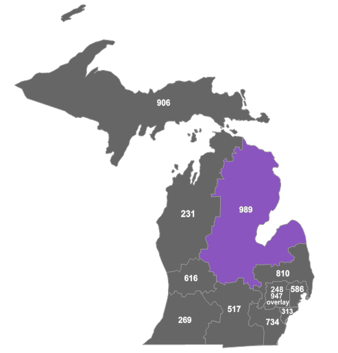 Area code map of Michigan highlighting the region covered by area code 989.